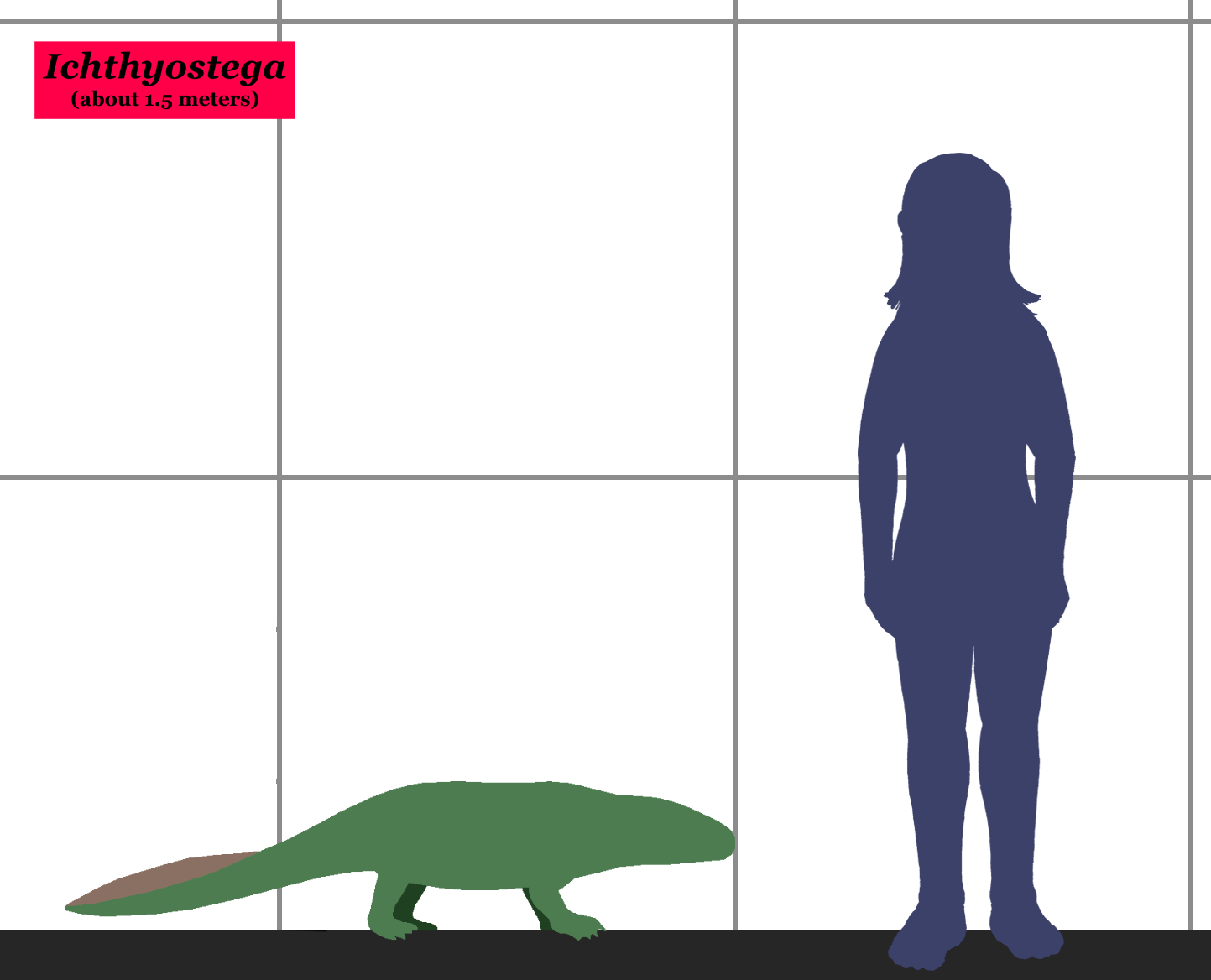 Size of the extinct tetrapod Ichthyostega (about 1.5 meters), compared to a human.